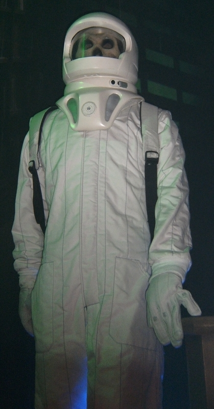 from the Doctor Who episodes "Silence in the Library" / "Forest of the Dead" - Doctor Who exhibition at the Red Dragon Centre at Cardiff Bay Doctor Who Experience